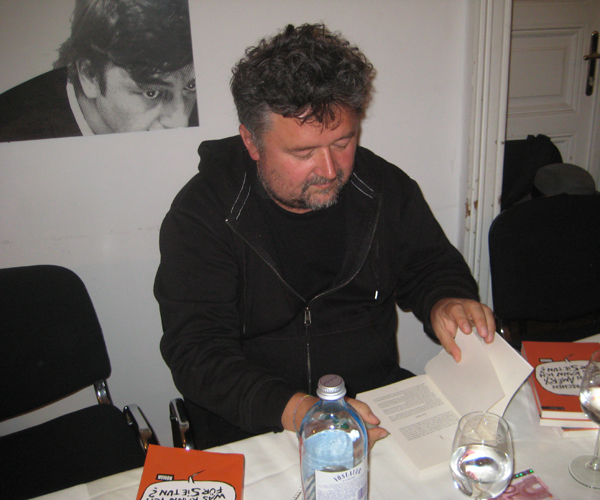 Lesung im Repclub 2011